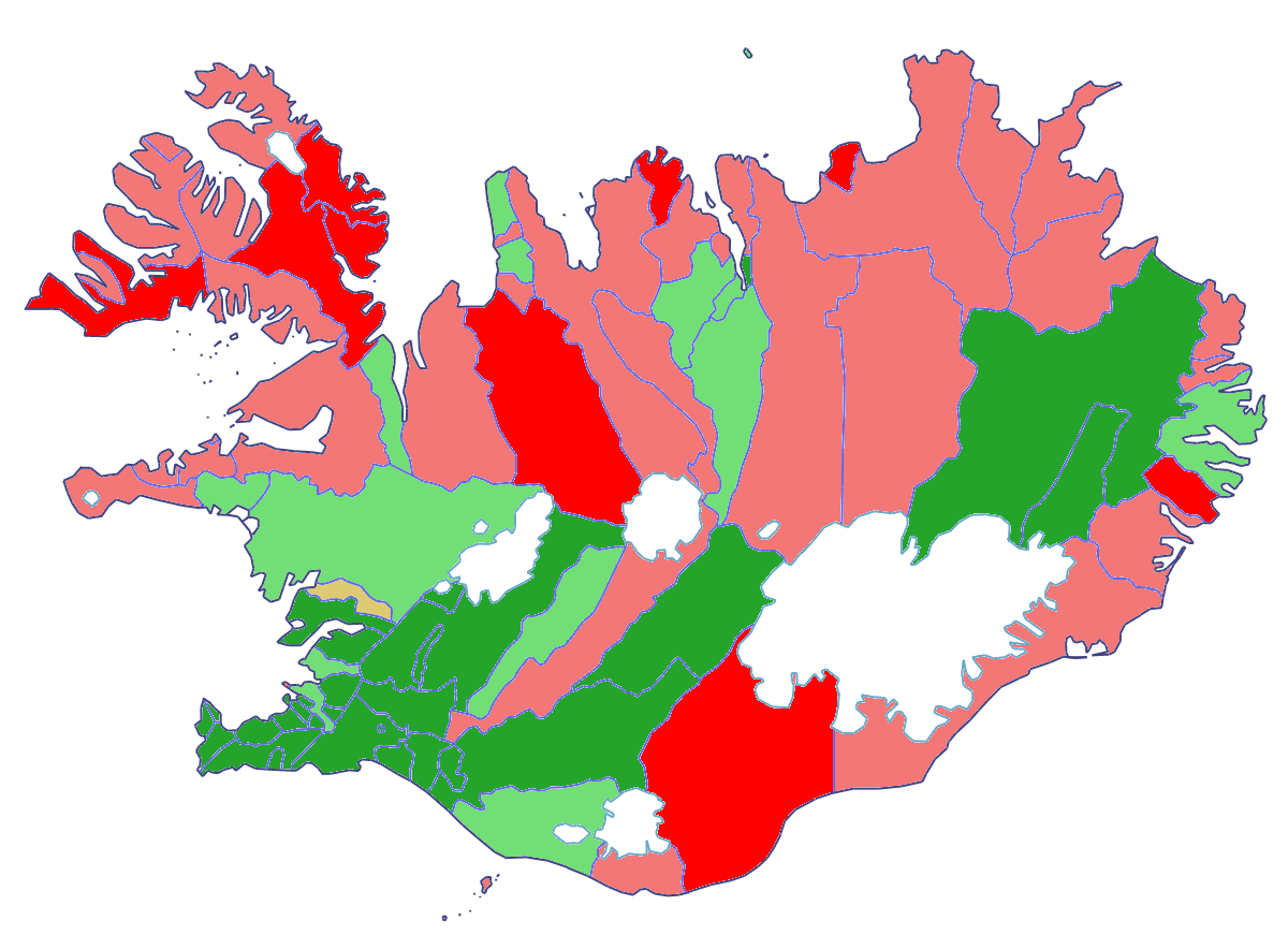 This map shows the changes in population of the municipalities of Iceland in the ten year period 1998-2008. The dark red municipalities have lost over 20% of their population in this period while the lighter red have experienced less severe depopulation. The yellow indicates the one municipality which had the exactly same number of inhabitants in 1997 and 2007. The green municipalities experienced a growth in population, the growth was lower than the total growth of the nation in the period (16.16%) in the light green ones and higher than the national rate in the dark green ones.